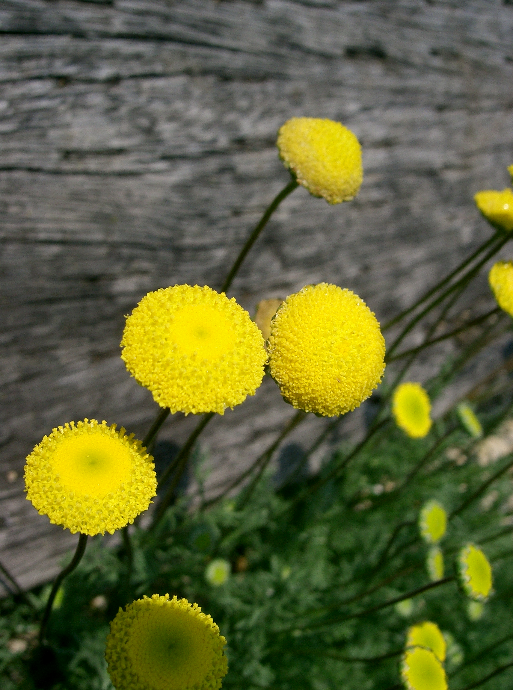 Scientific name Cotula barbata Place:Osaka Prefectural Flower Garden,Osaka,Japan